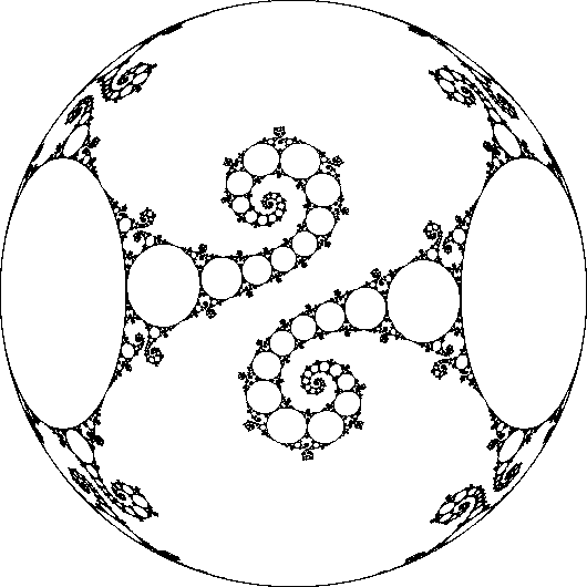 Limit set of a quasifuchsian group (Kleinian group) on sphere